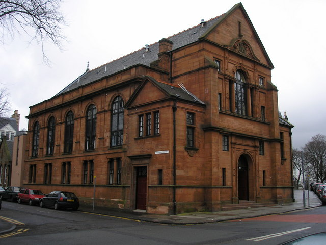 Flats in the former Warrender Parish Church The former Warrender Parish Church, on the corner of Greenhill Terrace and Whitehouse Loan, has been converted into approximately 16 flats. The church was originally a Free Church building. In 1901 the congregation joined the United Free Church (on the union between the Free Church and the United Presbyterian Church). In 1929 the congregation became part of the Church of Scotland following the union of the United Free Church with the Church of Scotland. Prior to the 1929 union the congregation was named Warrender Park. On 11th June 1972 the congregation was united with two other congregations (Grange and West St Giles') to form the congregation of Marchmont St Giles'.